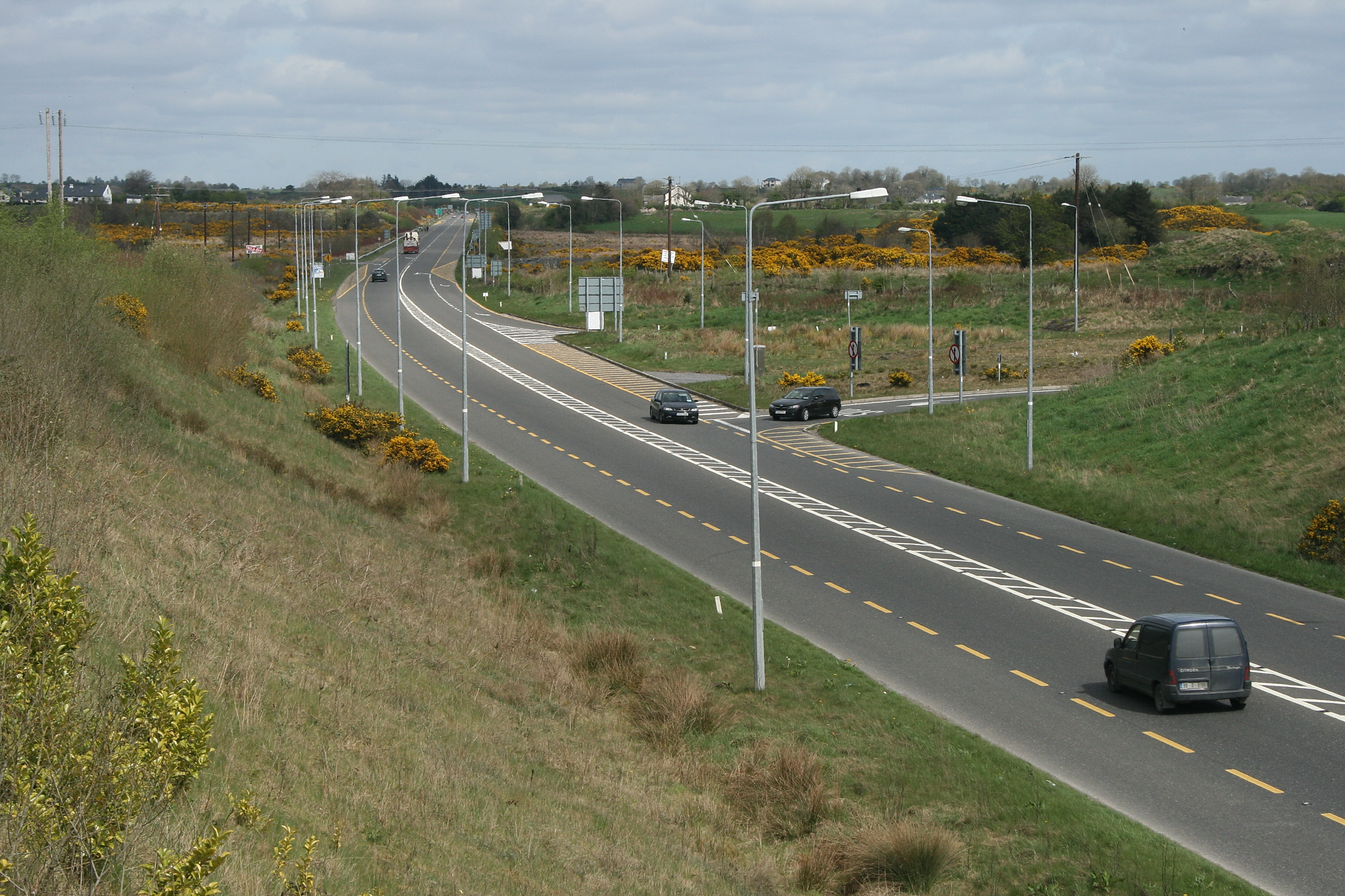 The N17 Claremorris by-pass at the junction with the N60